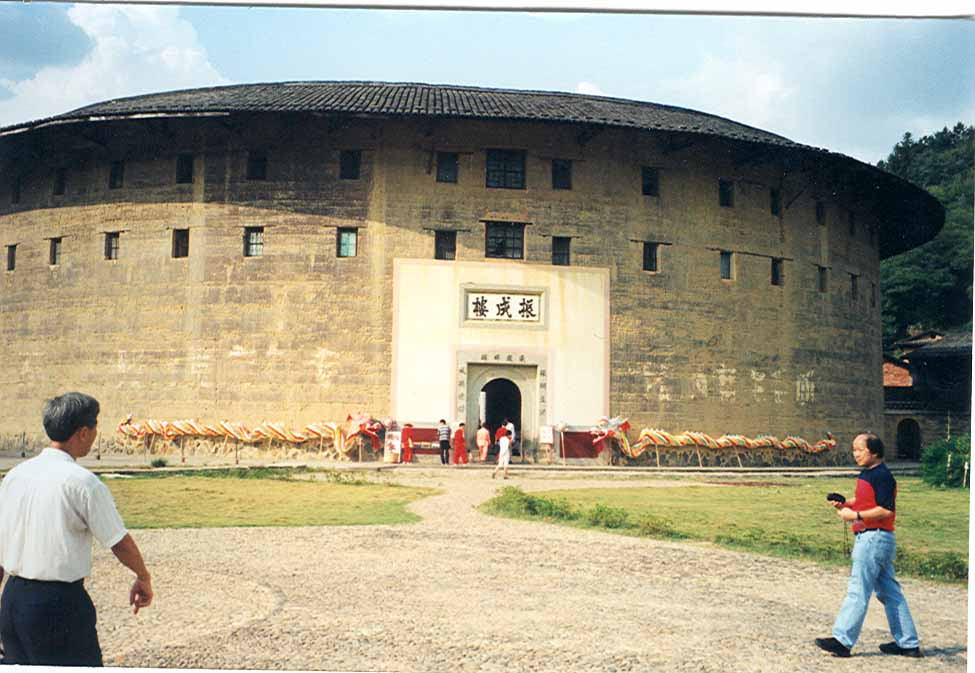 Front view of the traditional buildings of the southern Chinese Hakka-Tribe (客家). Yongding, Fujian 2000